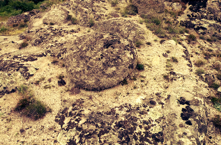 Sd razlog bg 2